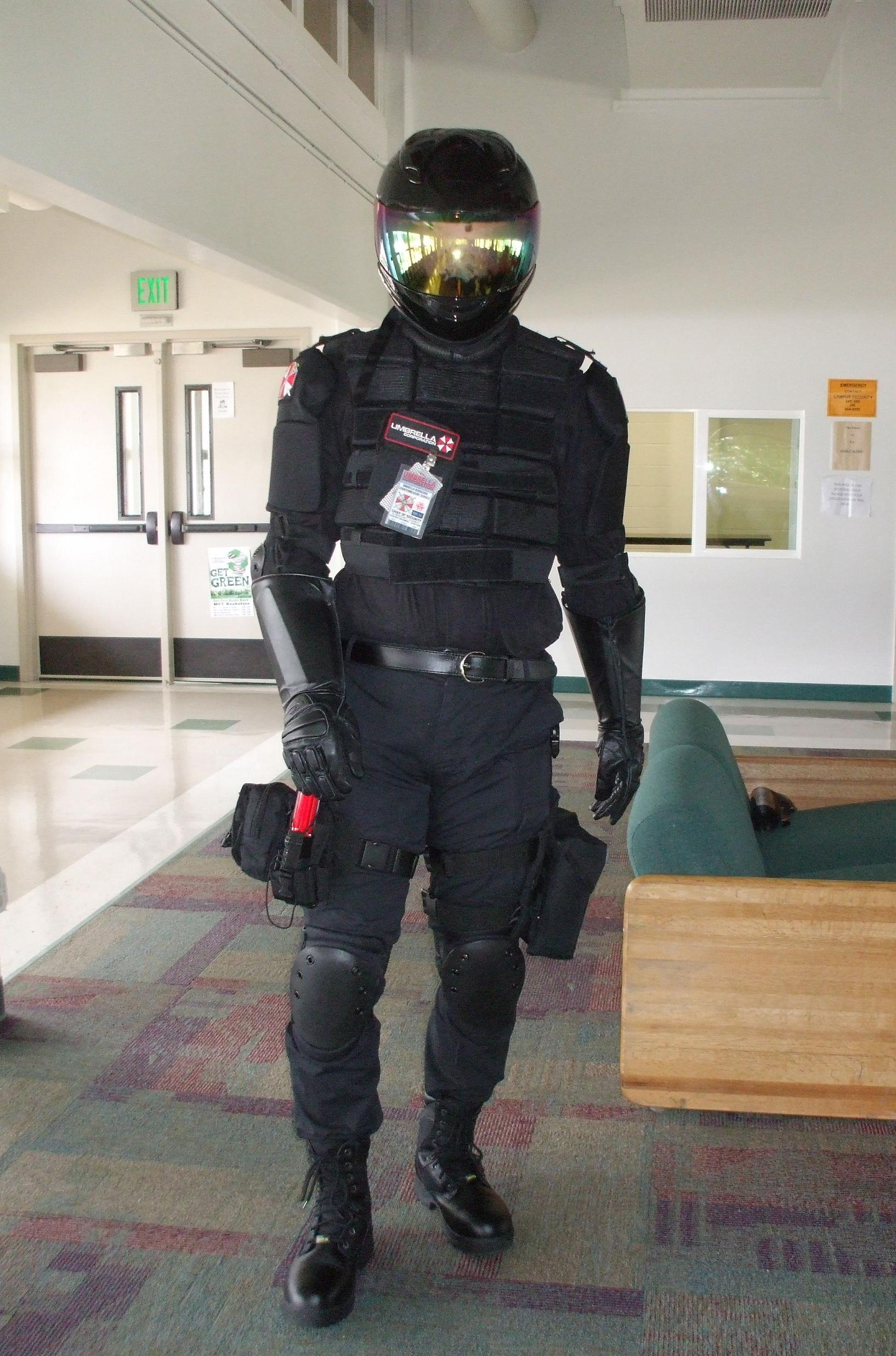 Umbrella Corporation Centurion cosplayer from the Resident Evil: Apocalypse Movie.